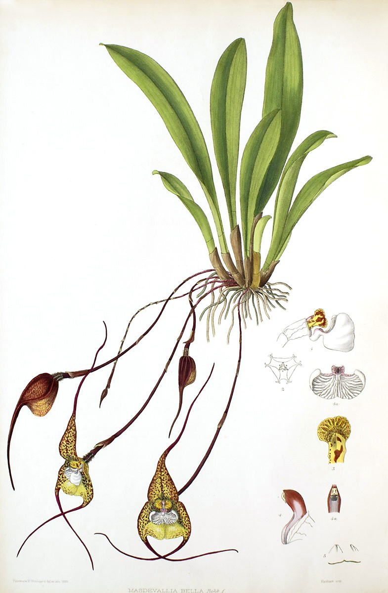 Illustration of Dracula bella from Florence H. Woolward: The Genus Masdevallia